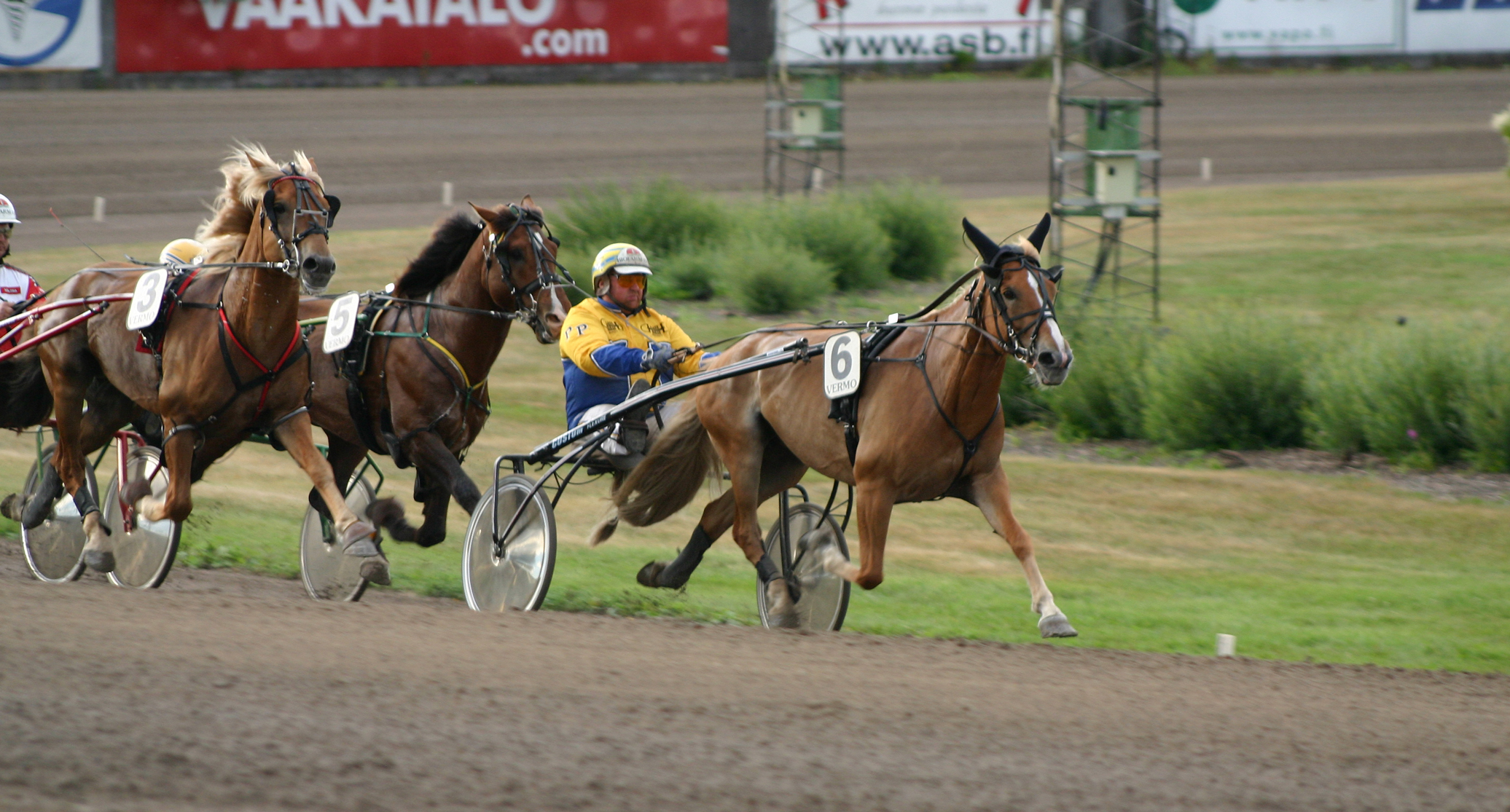 Ravikuningatar title winner 9 years old I.P. Vipotiina, driven by Pertti Puikkonen, dashes towards a win and a new Finnish record of Finnhorse mares.